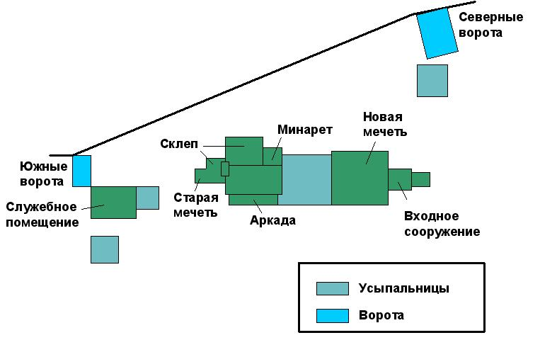 Plan of Bibi Eybat mosque in Baku untill destruction in 1936 by Soviet Government. Middle of 1920-s